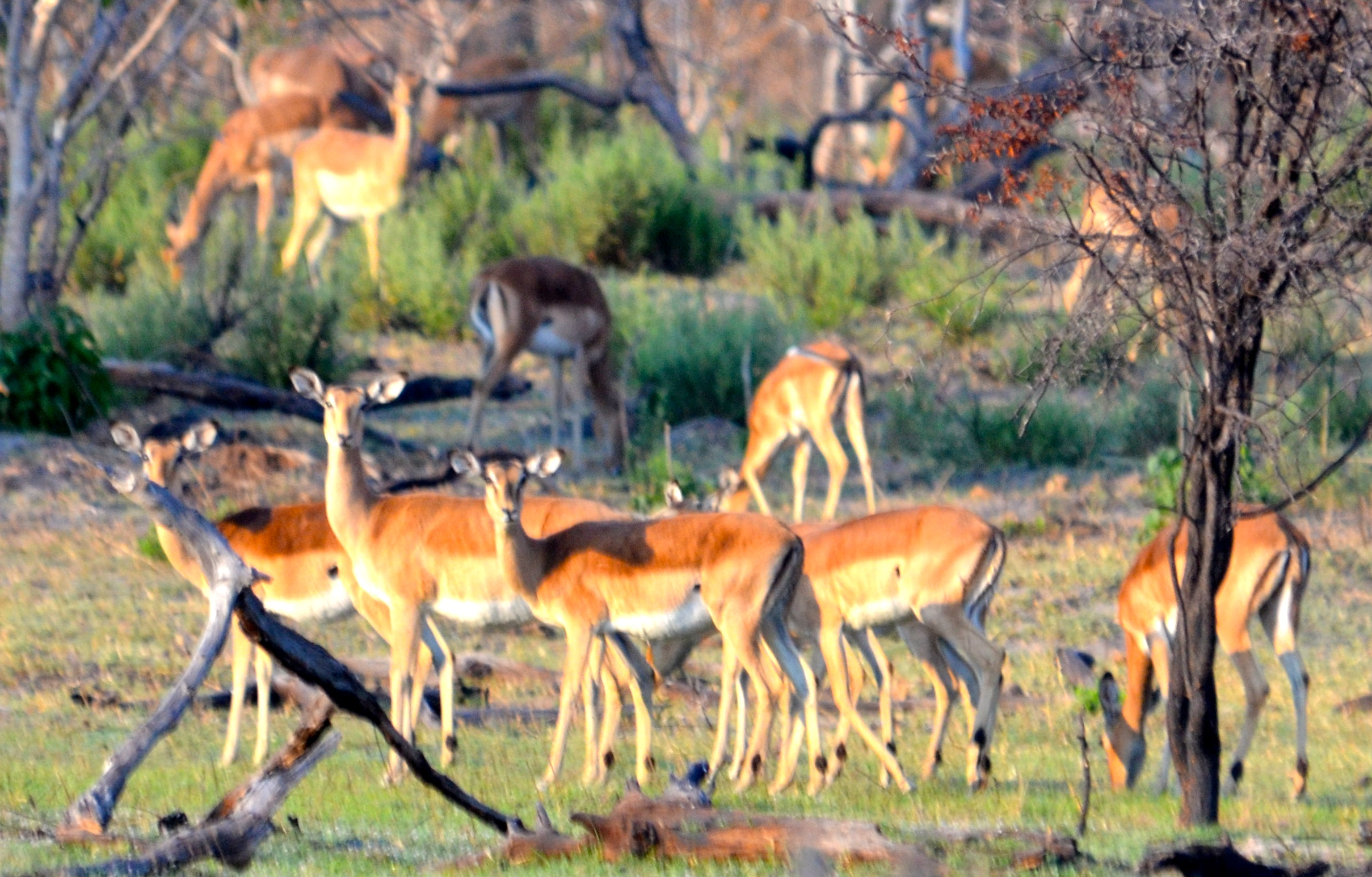 Small herd of lechwe antelopes, Okavango Delta, Botswana